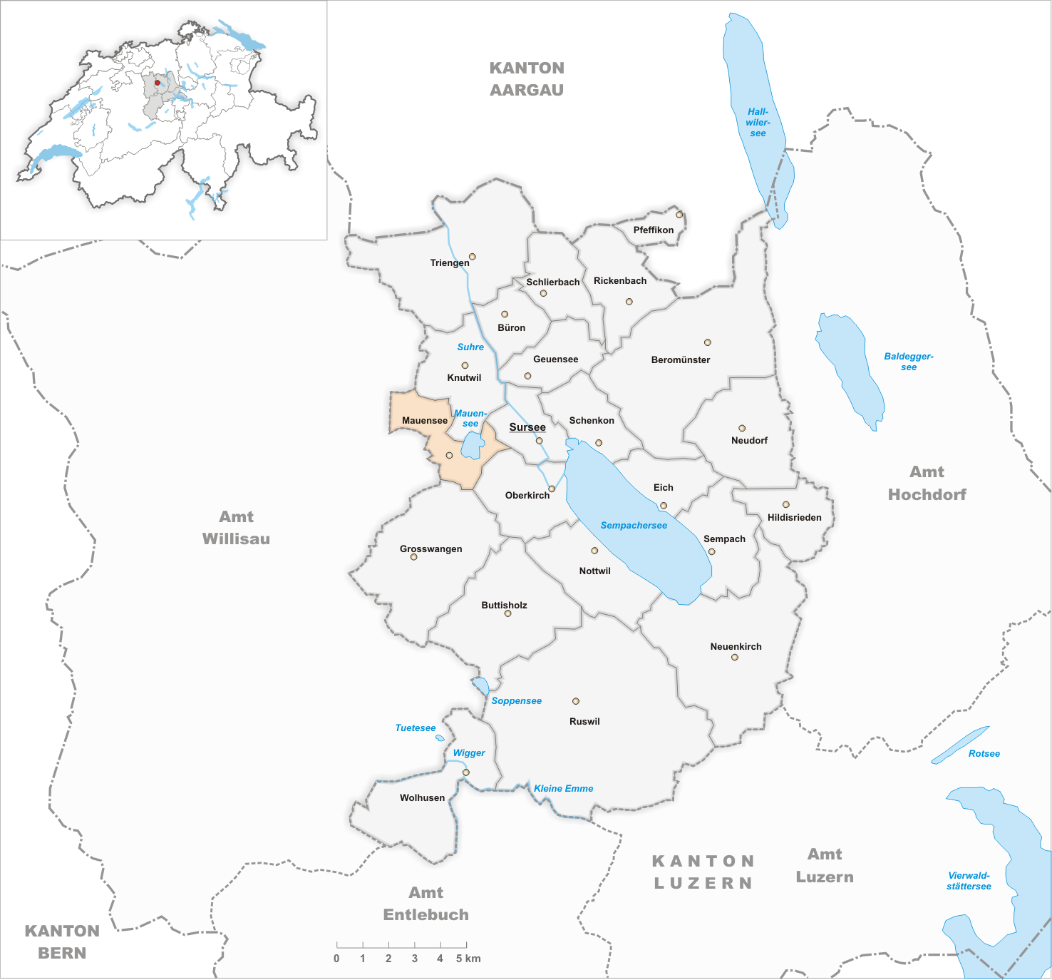 Municipality Mauensee